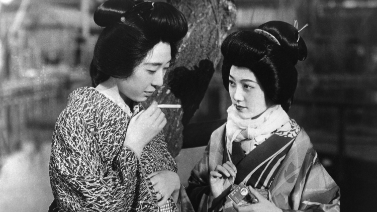 Mitsuko Yoshikawa and Sumiko Mizukubo in Kimi to wakarete (1933) directed by Mikio Naruse